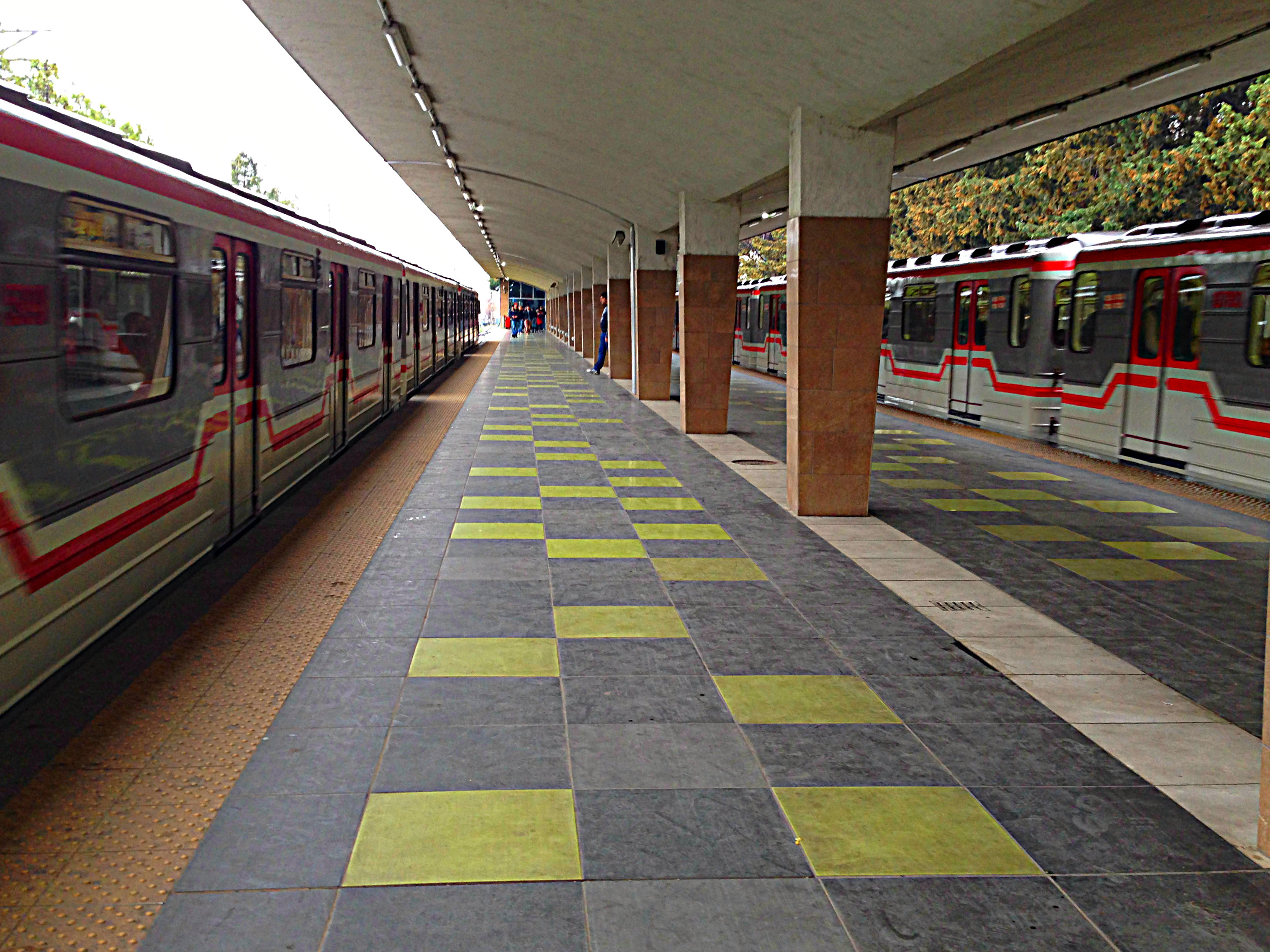 Tbilisi Subway. station Didube.